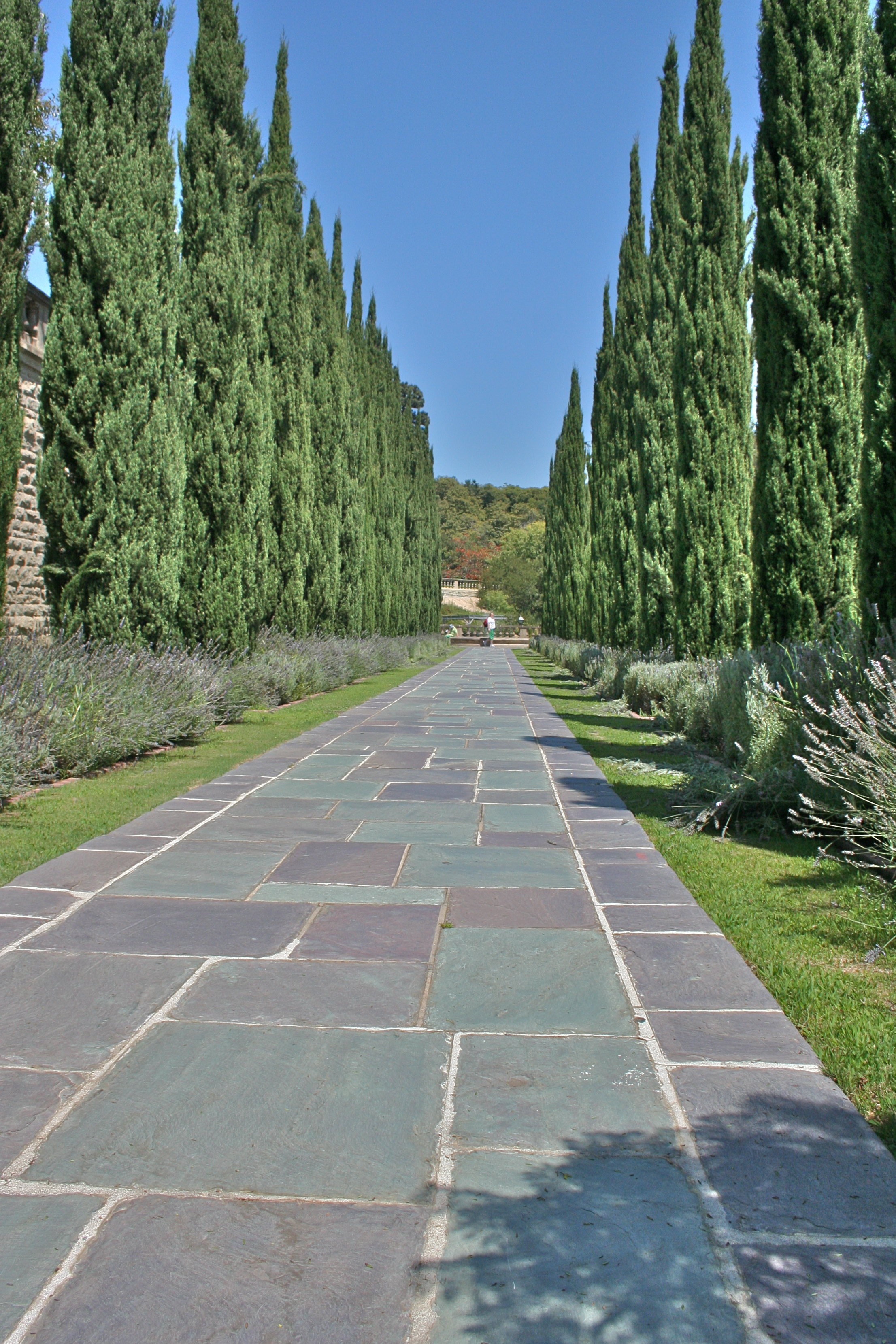 Greystone Mansion garden alleé — formal English gardens at the 1928 Doheny mansion (city park), in Beverly Hills, California.